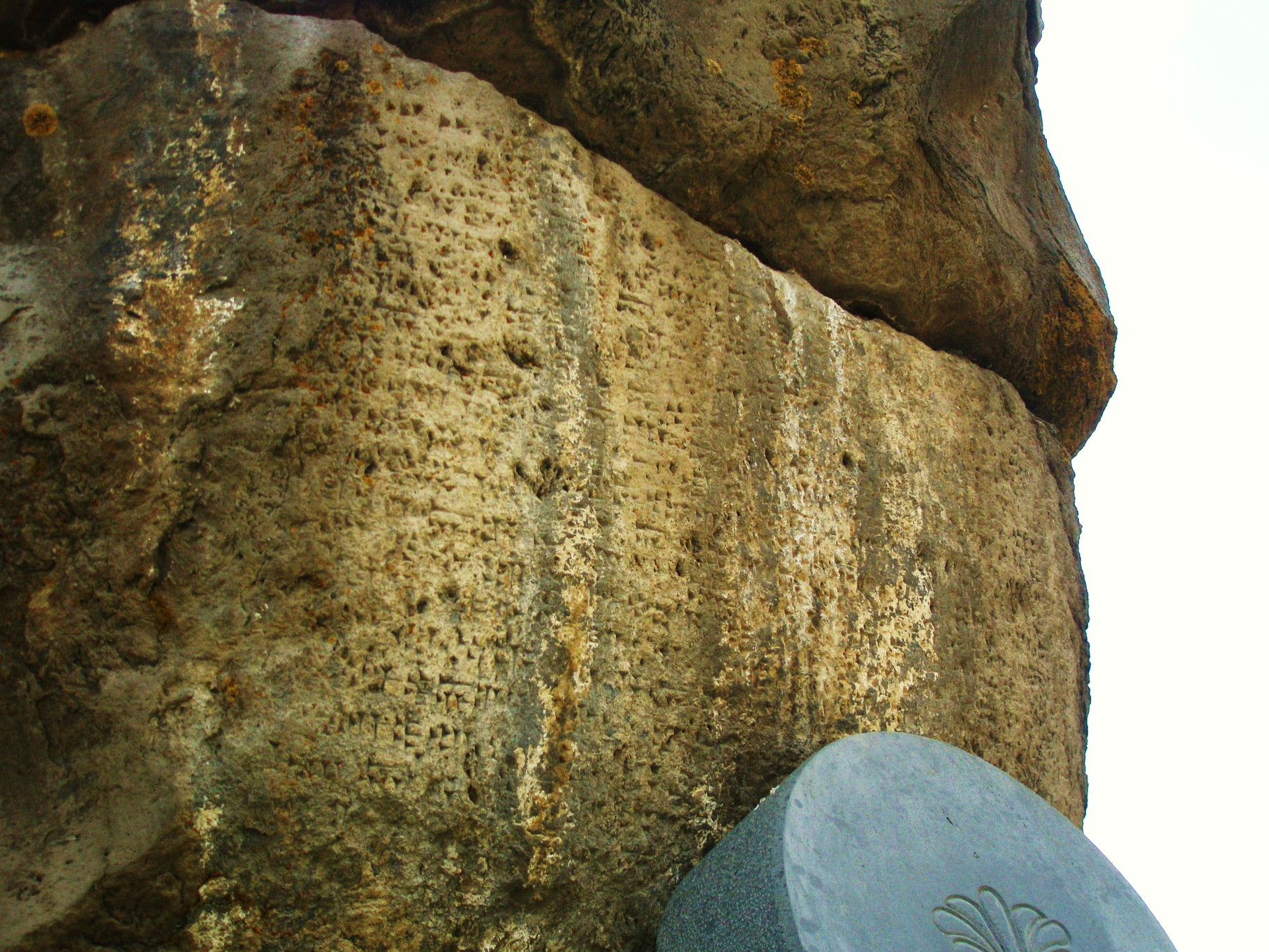 Cuneiform inscription written by Rusa I at Teyseba.